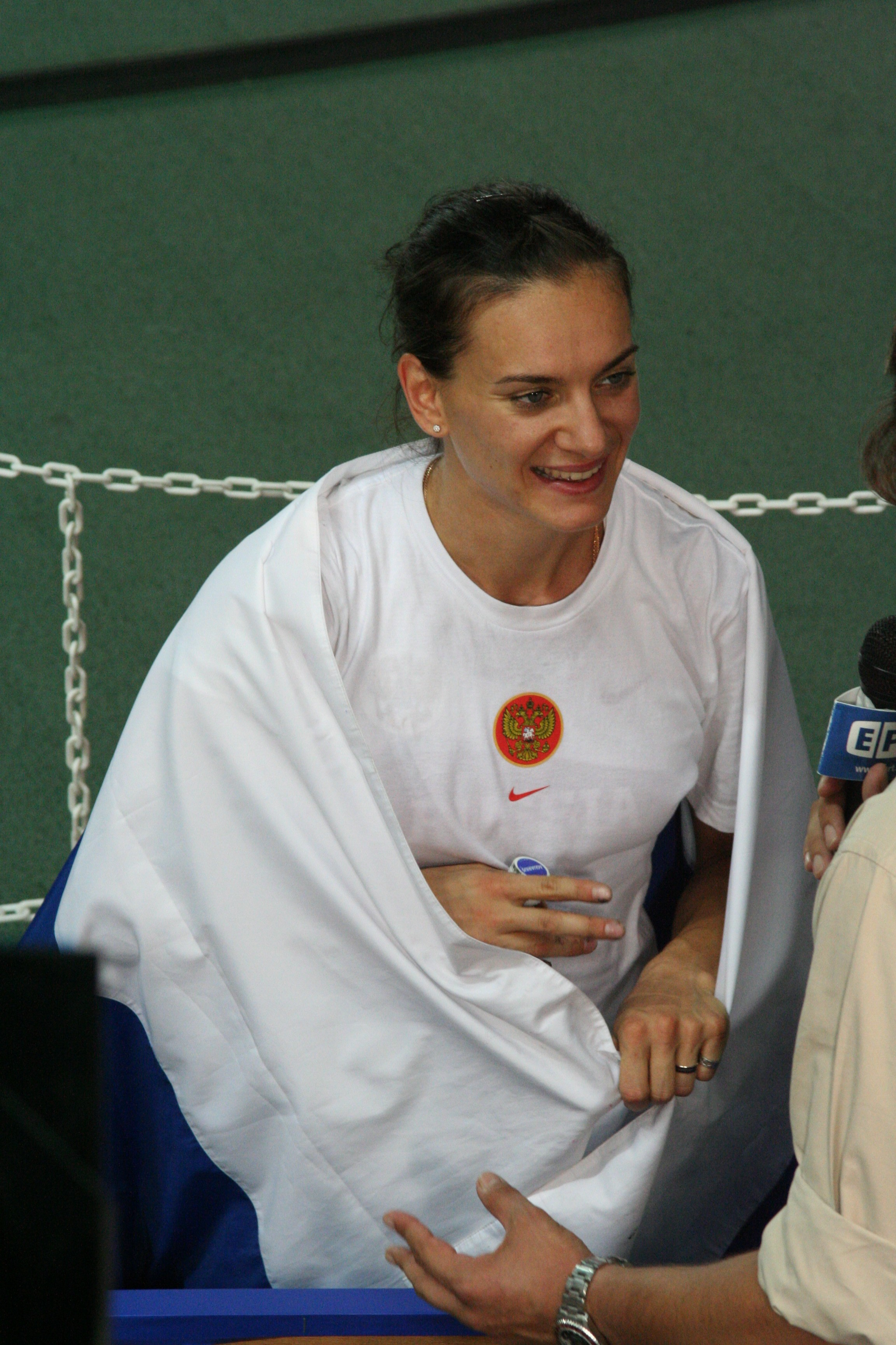 World Athletics Championships 2007 in Osaka - Yelena Isinbaeva is being interviewed after her victory in the women's pole vault competition